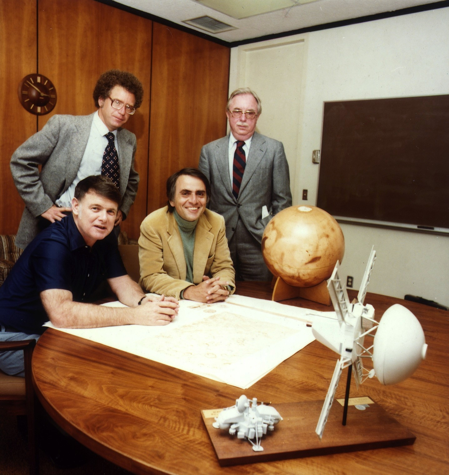 Carl Sagan, Bruce Murray (seated right to left) and (standing) Louis Friedman (standing, right), the founders of The Planetary Society at the time of signing the papers formally incorporating the organization. The fourth person is Harry Ashmore(standing, left), an advisor, who greatly helped in the founding of the Society. Ashmore was a Pulitizer Prize winning journalist and leader in the Civil Rights movement in the 1960s and 70s.